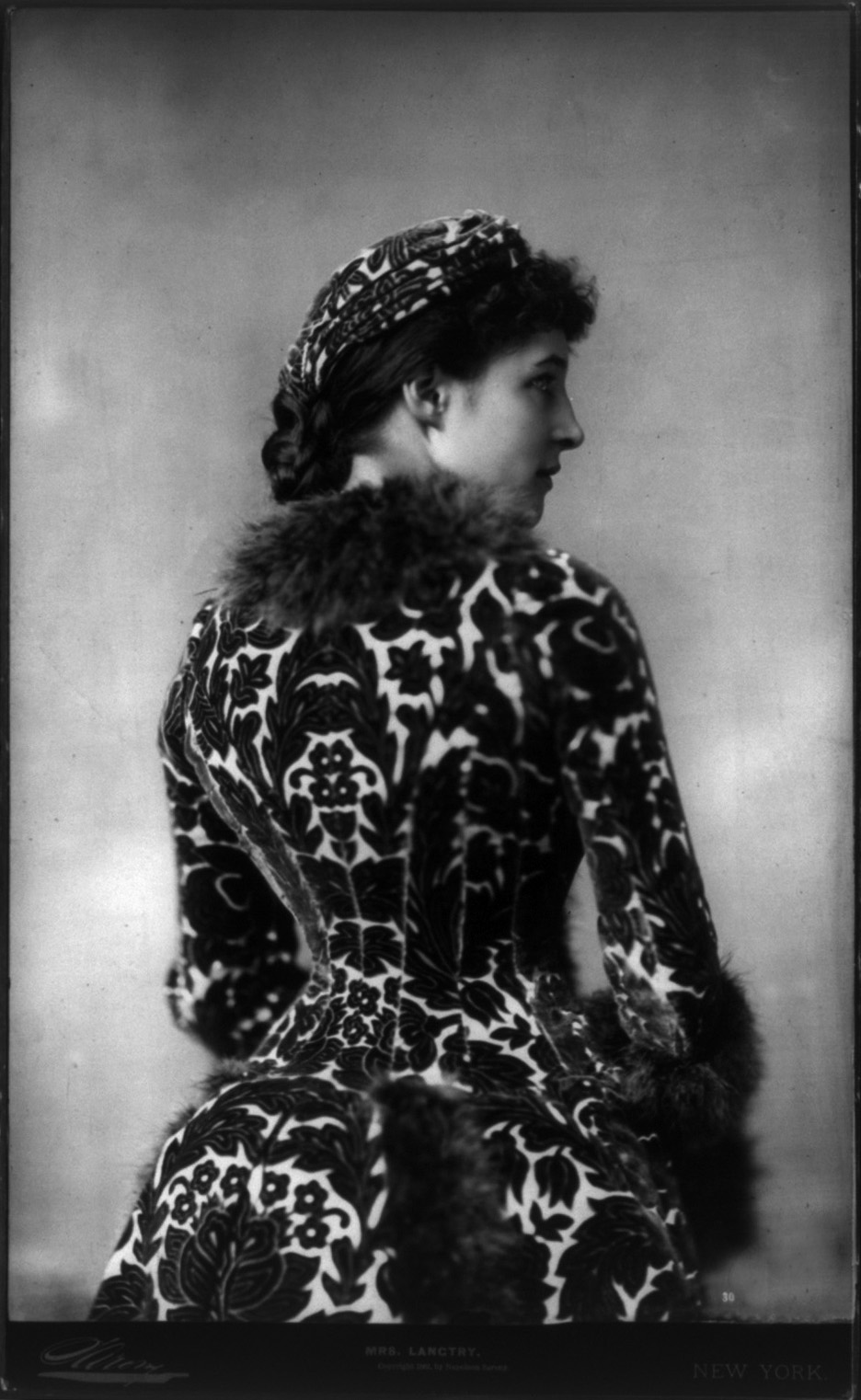 British actress Lillie (or Lily) Langtry, half length portrait, standing, right profile; in matching turban and dress.